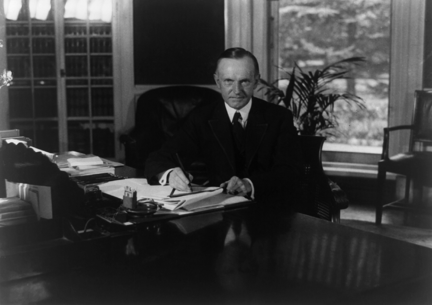 "Calvin Coolidge, half-length portrait, seated at desk in Oval Office, facing front."